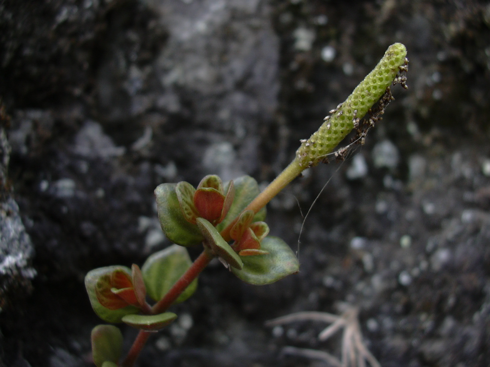 Peperomia tetraphylla (habit). Location: Maui, Auwahi